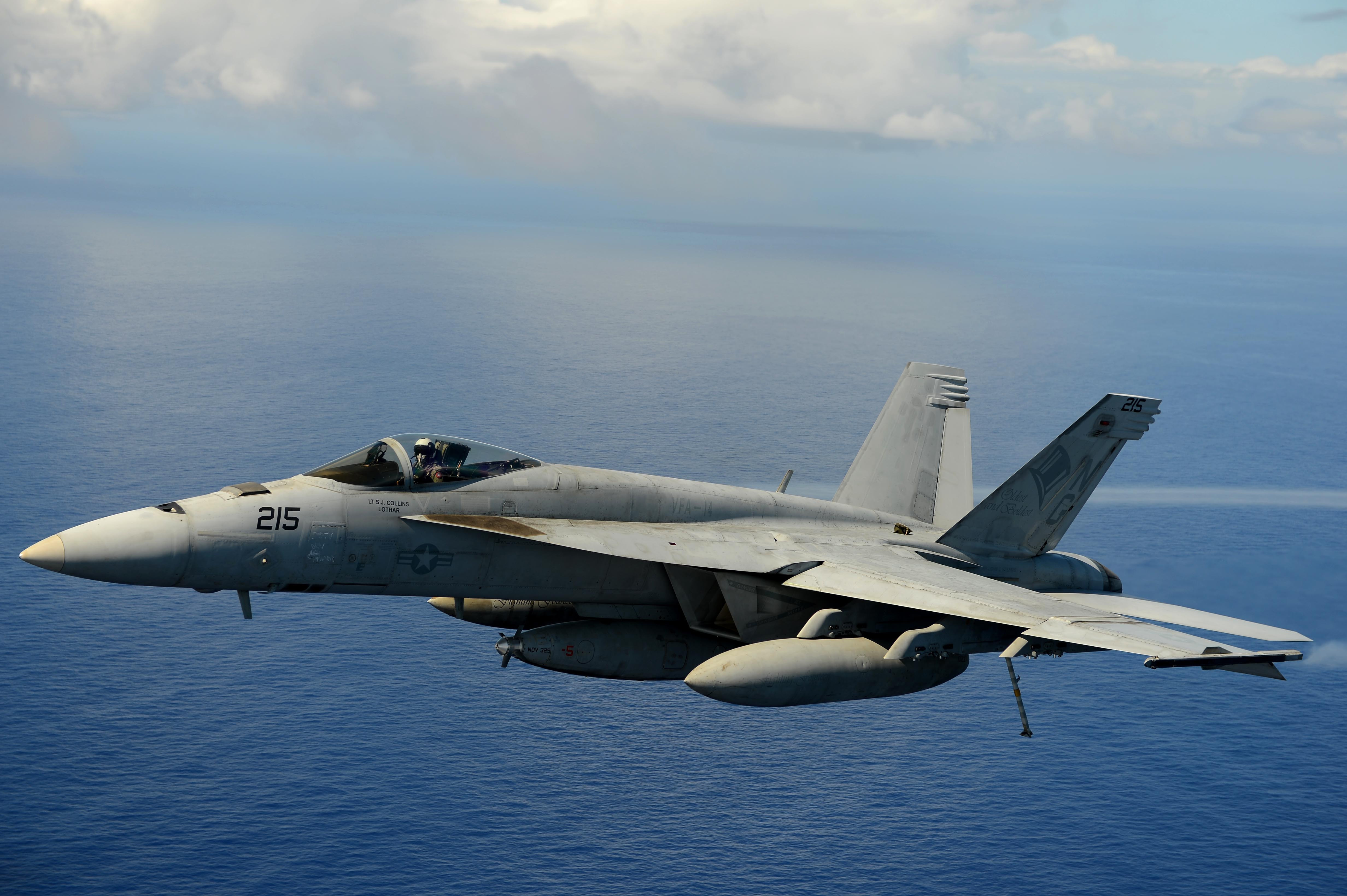 A U.S. Navy F/A-18E Super Hornet aircraft assigned to Strike Fighter Squadron (VFA) 14 participates in an air power demonstration near the aircraft carrier USS John C. Stennis (CVN 74), not shown, in the Pacific Ocean April 24, 2013. The John C. Stennis Carrier Strike Group was returning from an eight-month deployment to the U.S. 5th Fleet and U.S. 7th Fleet areas of responsibility.